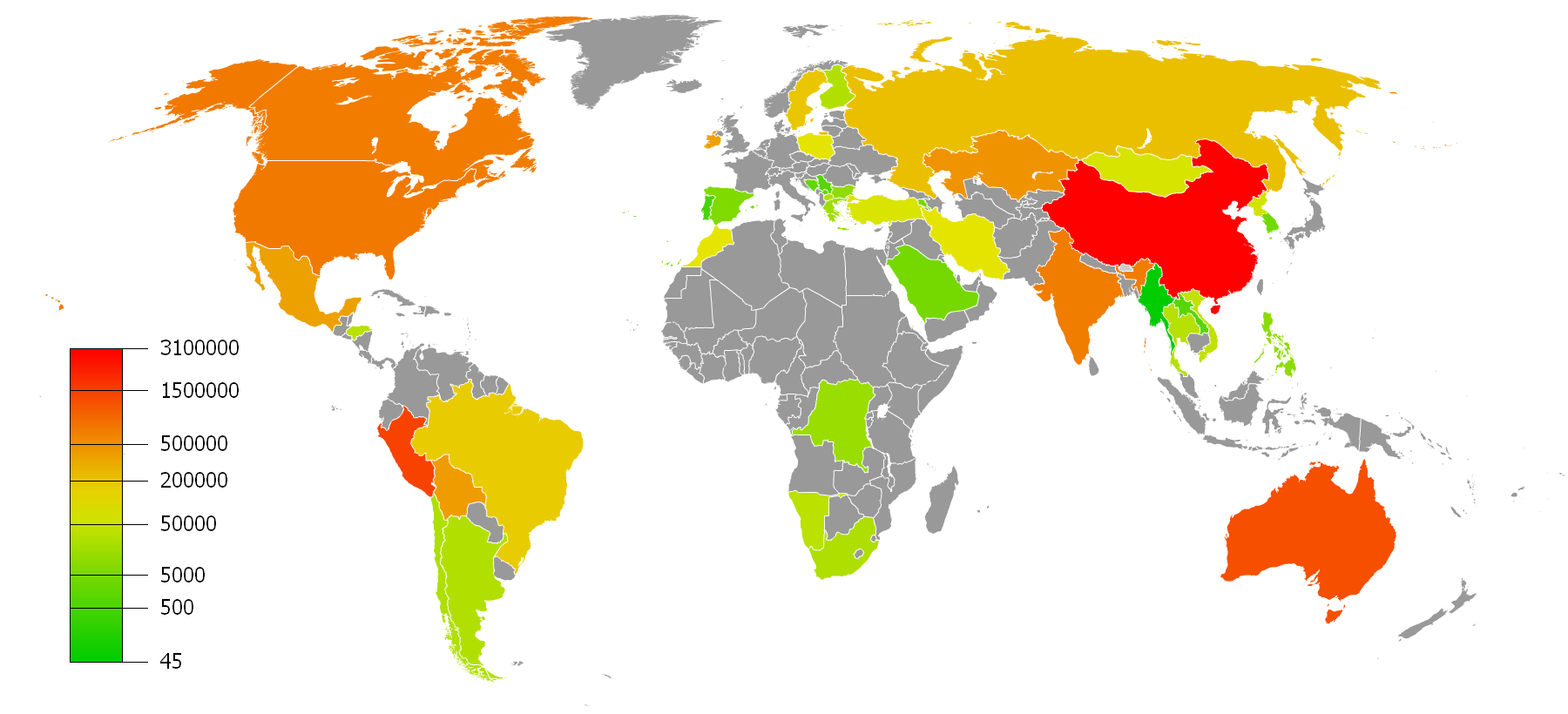 Zinc production by country 2009